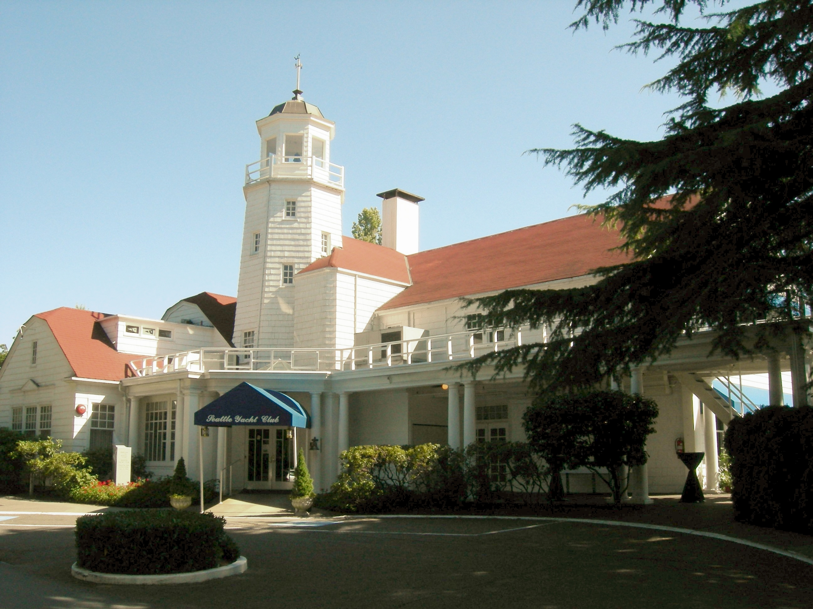 Clubhouse of the Seattle Yacht Club. Originally founded in 1892 with a headquarters at the base of Duwamish Head, the club moved to its present location on Portage Bay in 1920 (when the Duwamish River was being rechanneled producing Harbor Island, etc.) The "main station" of the yacht club (the building and adjacent piers) was added to the National Register of Historic Places May 10, 2006; ID #06000370.